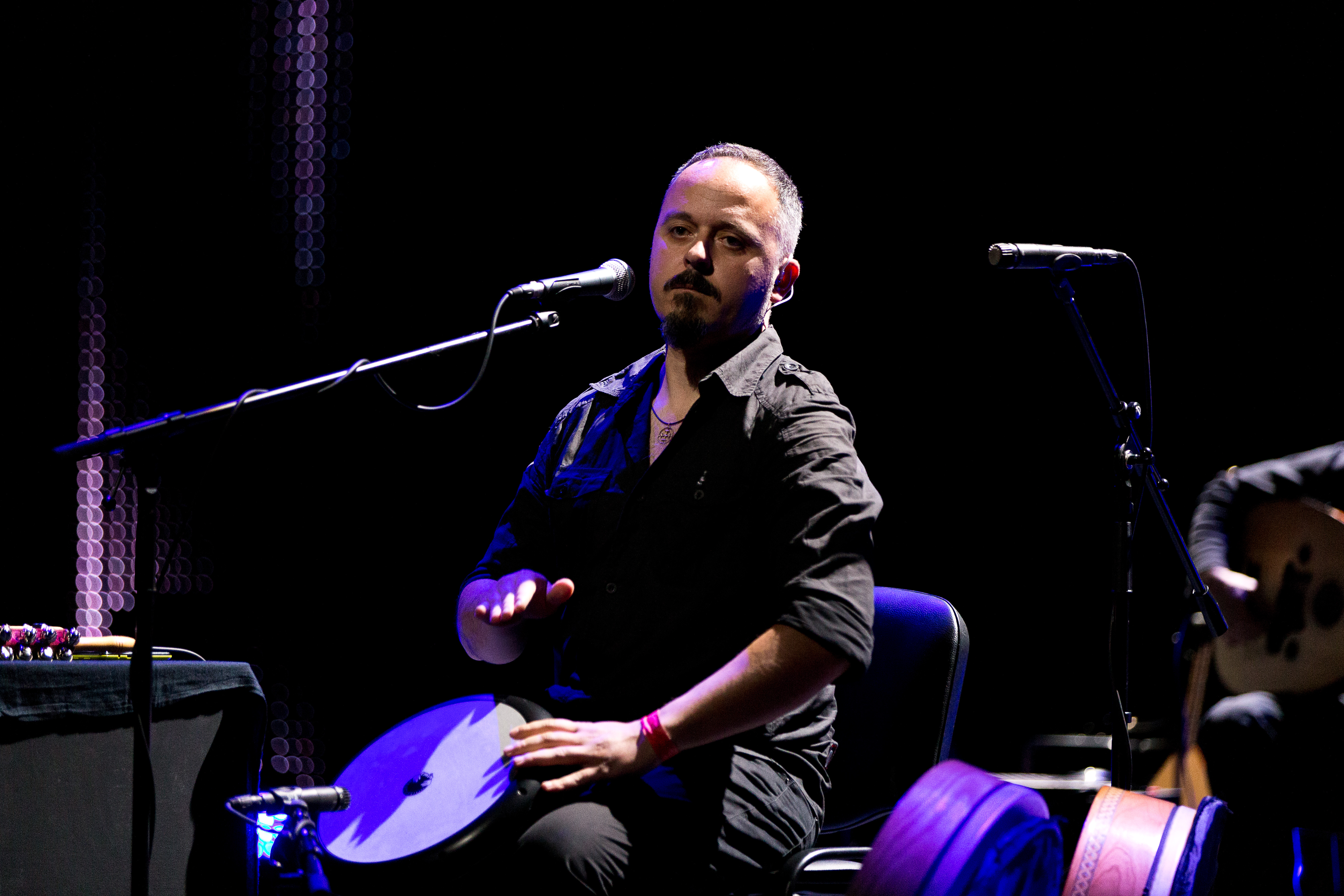 The Bulgarian ethereal world music band Irfan at the 25. Wave-Gotik-Treffen 2016 in Leipzig/Germany.